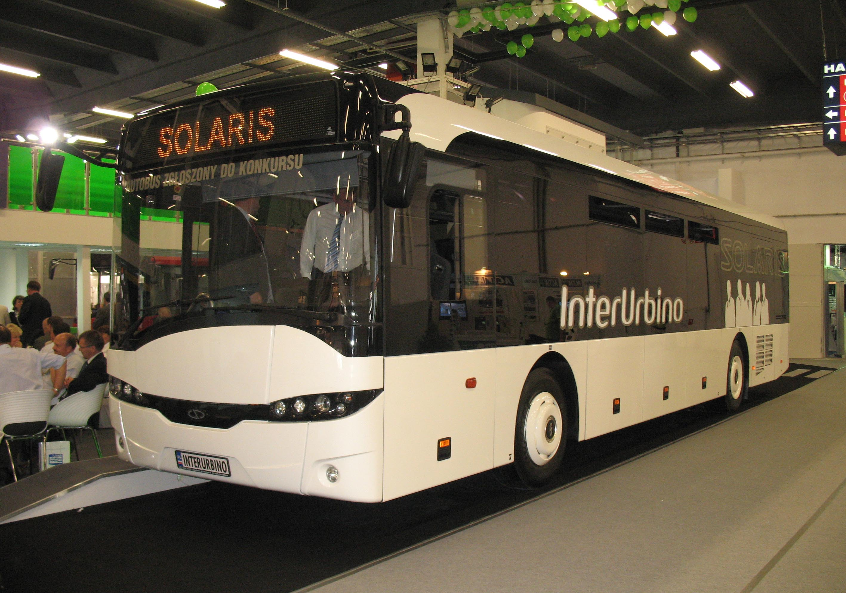 Solaris InterUrbino 12 intercity bus (prototype) in Kielce, Poland. Built 2009. Transexpo 2009.